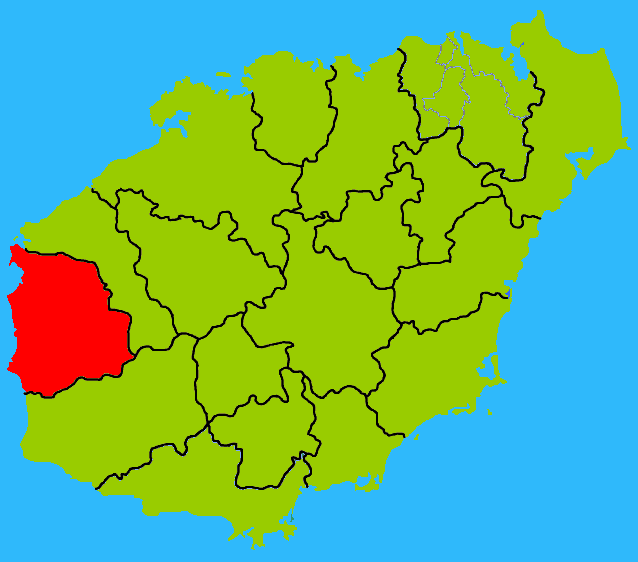 Hainan subdivisions - Dongfang, Hainan